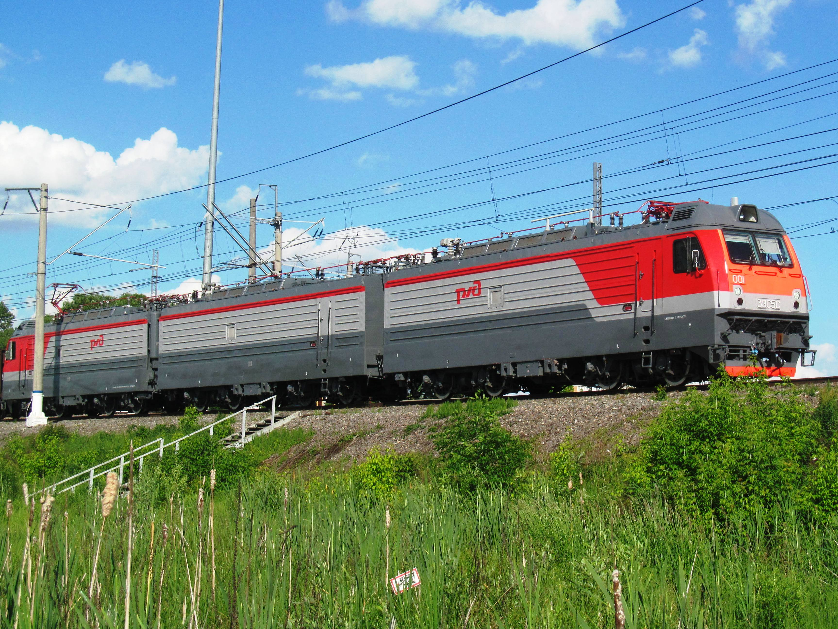 3ES5S-001 electrical locomotive (experimental unit) on test. Test circuit of VNIIZhT